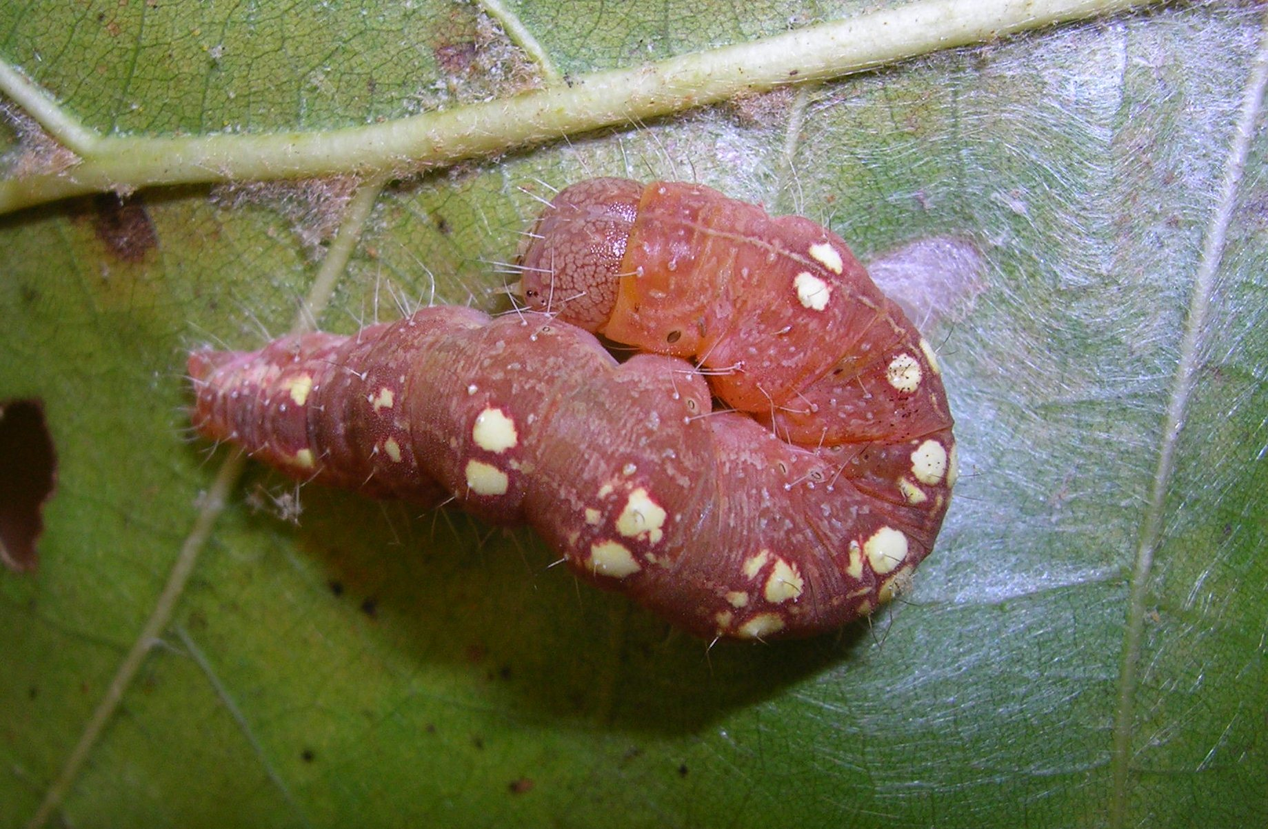 Acronicta increta, Southern oak dagger moth larva